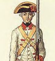 Early 18th Century drawing of the type of uniform that Jose Diaz and Francisco Diaz would have worn in 1779 as members of the Puerto Rican Militia. 1. Painting by Jose Campeche. 2. Author died over 100 years ago.